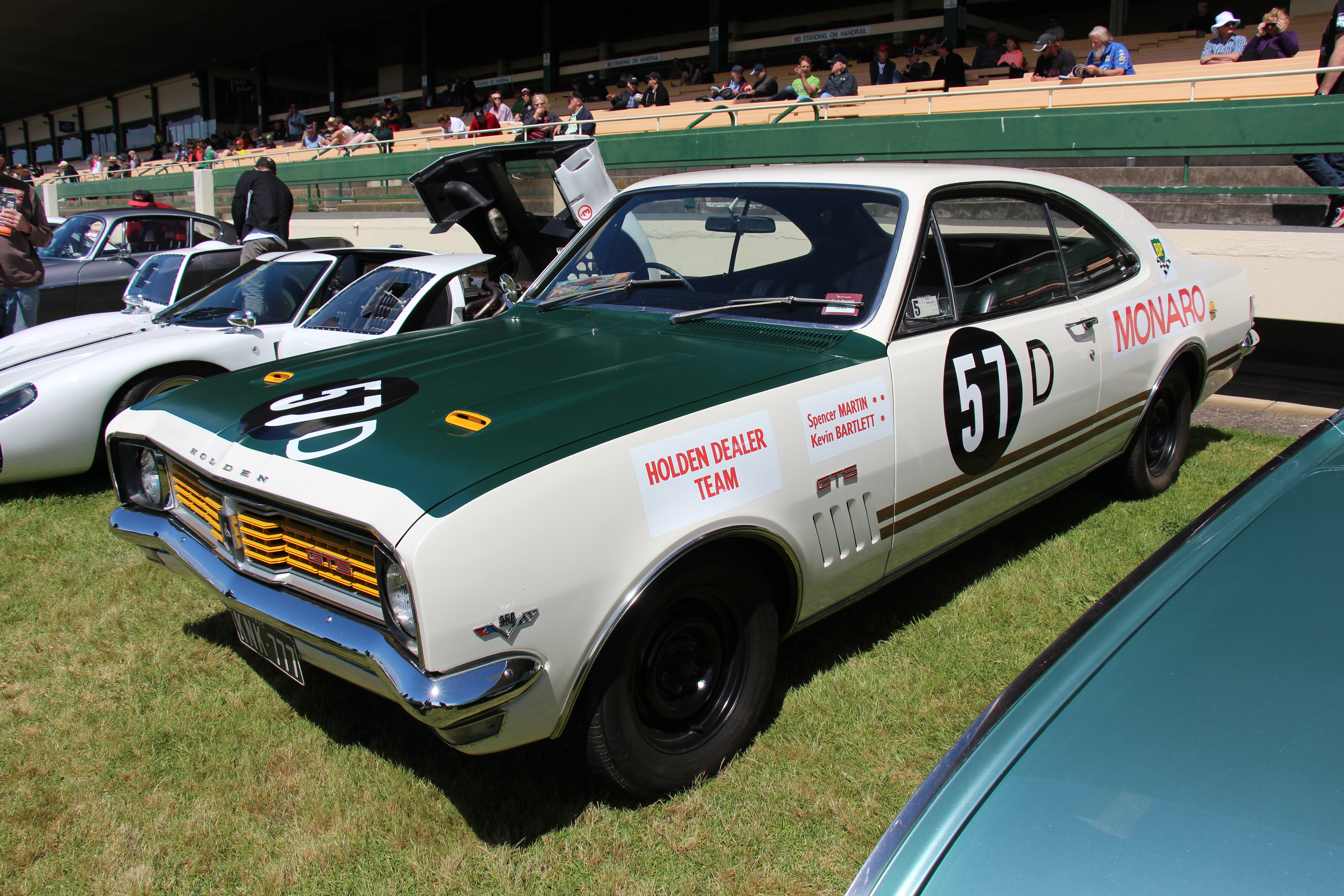 Built from May 1969-July 1970. A facelift on the HK, the HT Holden got revised grille, taillights and suspension and increased track. The US 307 V8 was dropped in favour of the new Australian made 253 and 308 V8s. The Chevrolet 350 replacing the 327. The Monaro became the basis for a car that was very competitive on the race track winning at Bathurst in 1969. This Holden Dealer Team HT Monaro was driven by Spencer Martin and Kevin Bartlett in the 1969 Sandown Three Hour Datsun Trophy Race. The car did not finish the race, which was won by a Ford Falcon GTHO.